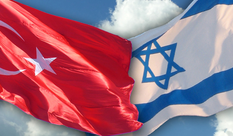 Israel-Turkey flag